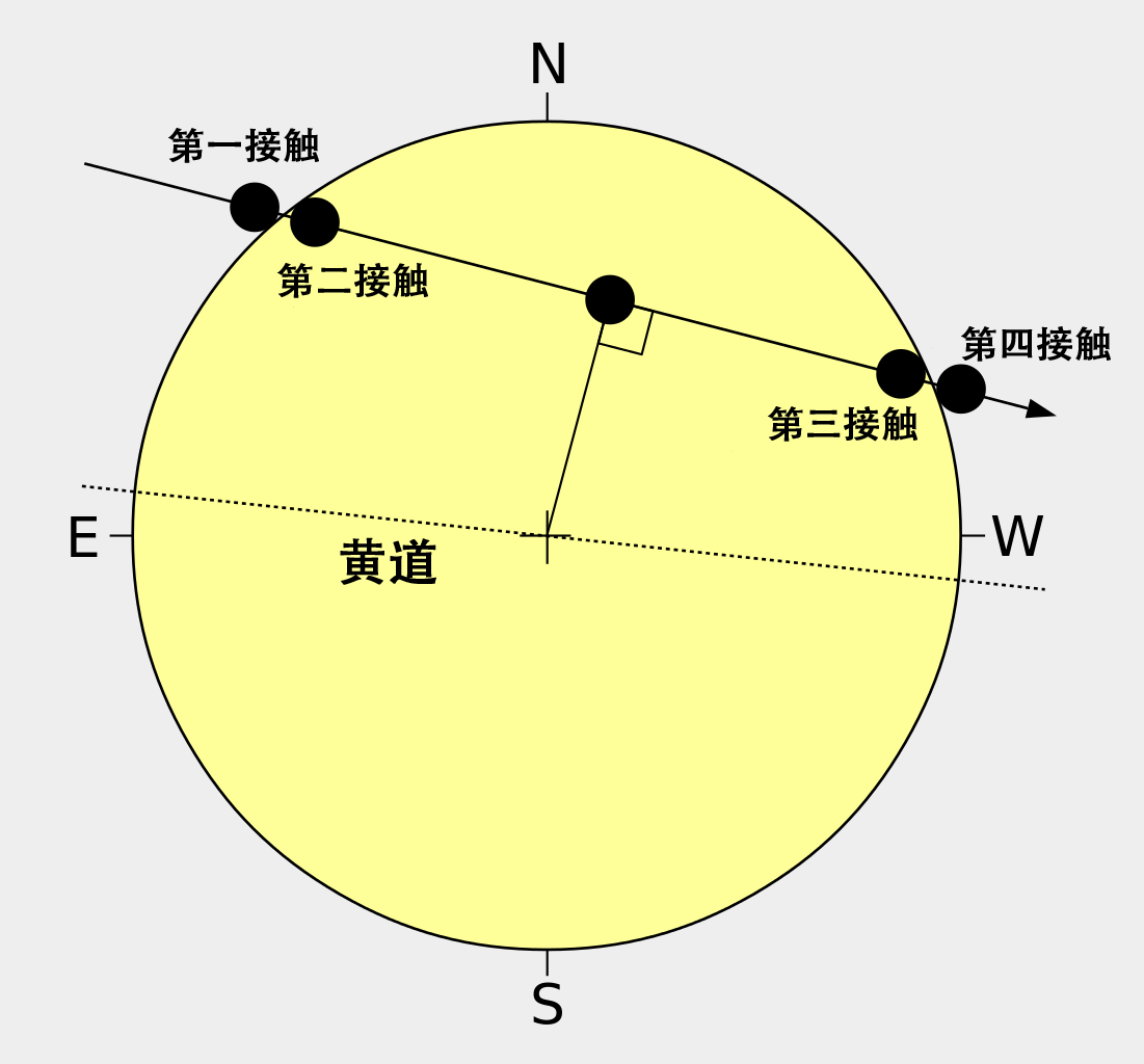 A Diagram illustrating transit of Venus in 2012